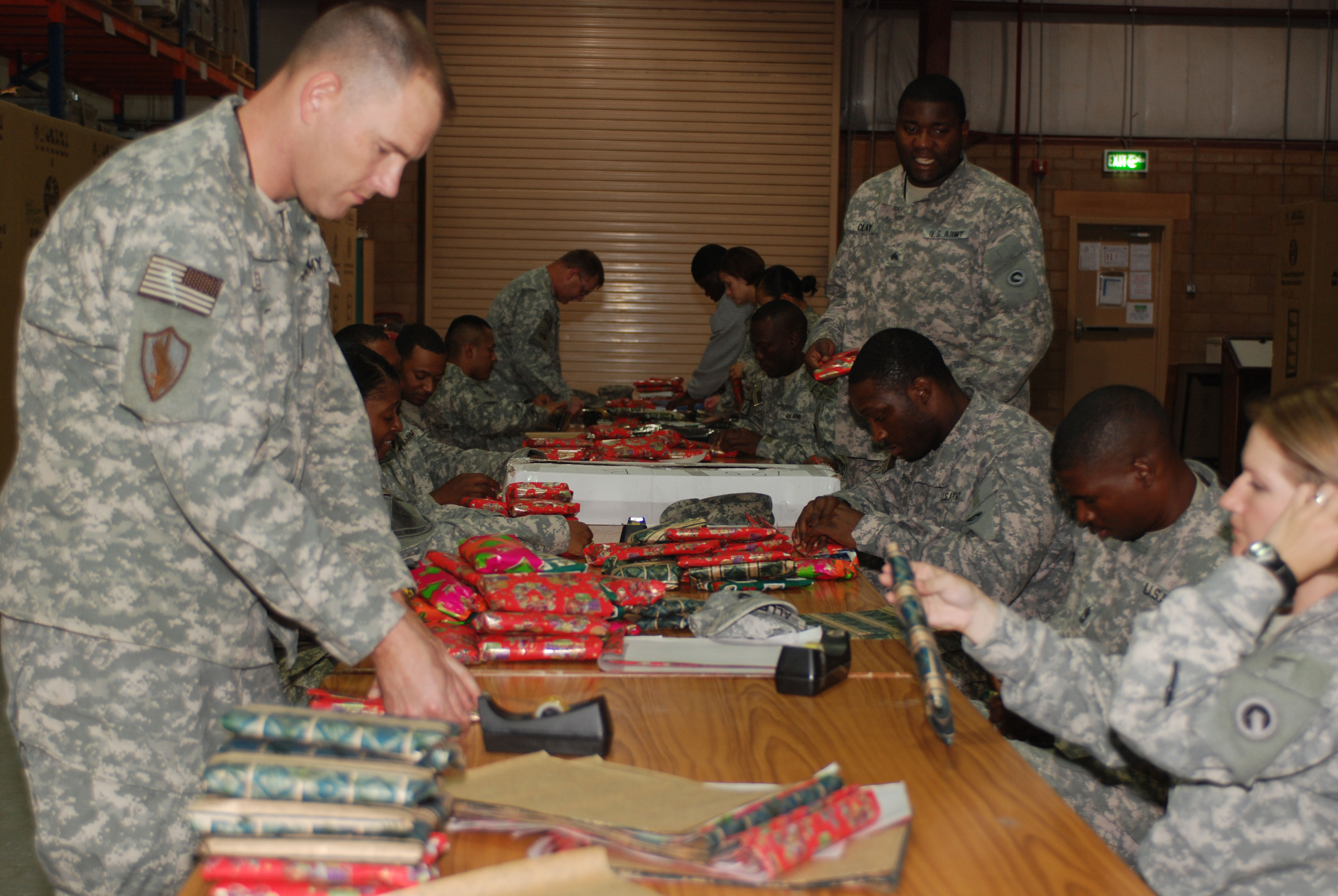 These senior Soldiers from the 1st Sustainment Command (Theater) wrap gifts for the junior enlisted Soldiers, Sailors, Airmen and Marines Wednesday, Nov. 12, at Camp Arifjan, Kuwait. The Fort Bragg based soldiers donated hundreds of hours for Operation Christmas, a program designed to make sure each of the servicemen stationed or passing through Kuwait receive a gift.